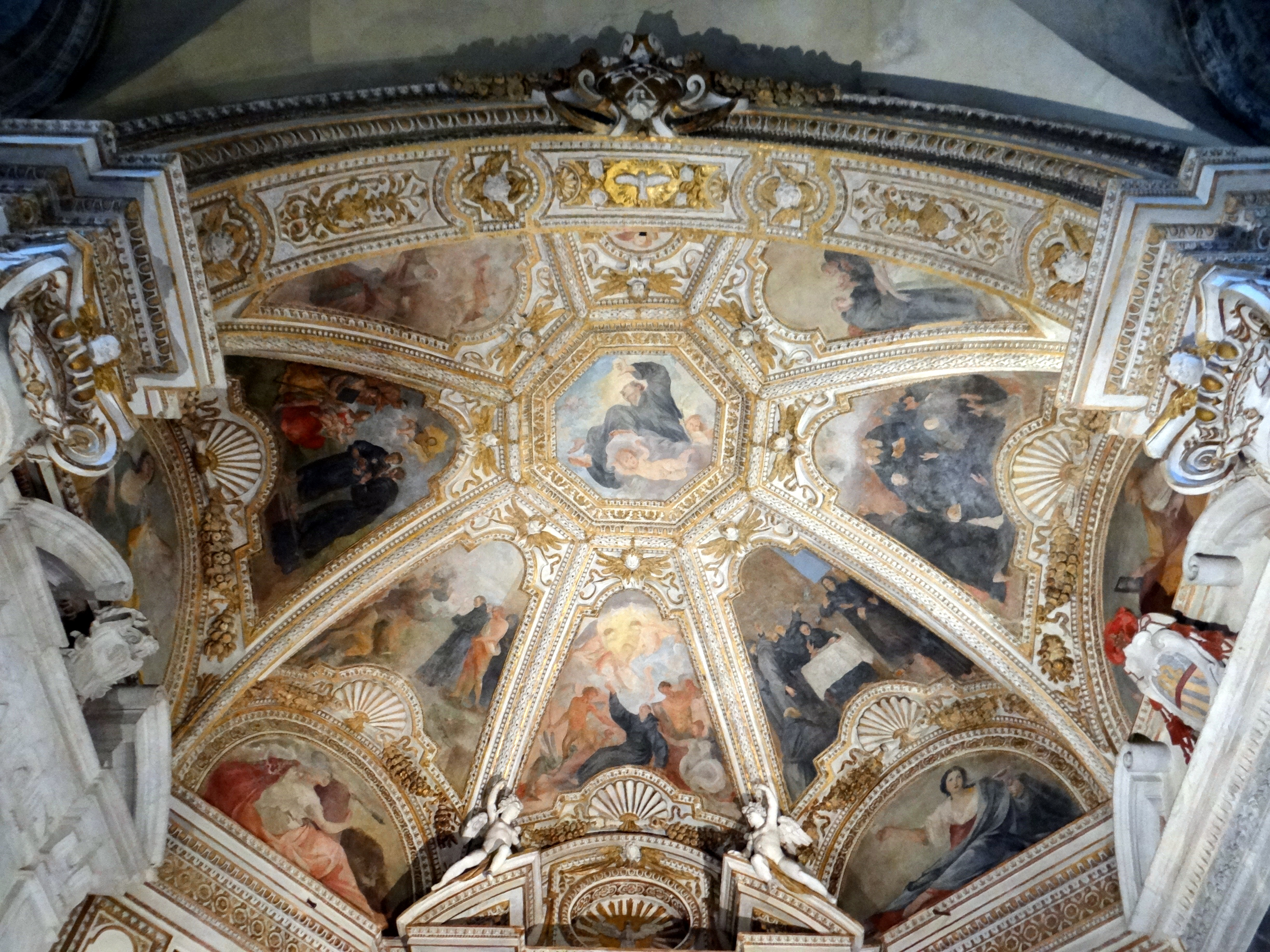 The Story of St Nicholas of Tolentino by Giovanni da San Giovanni in the Mellini Chapel, Basilica of Santa Maria del Popolo